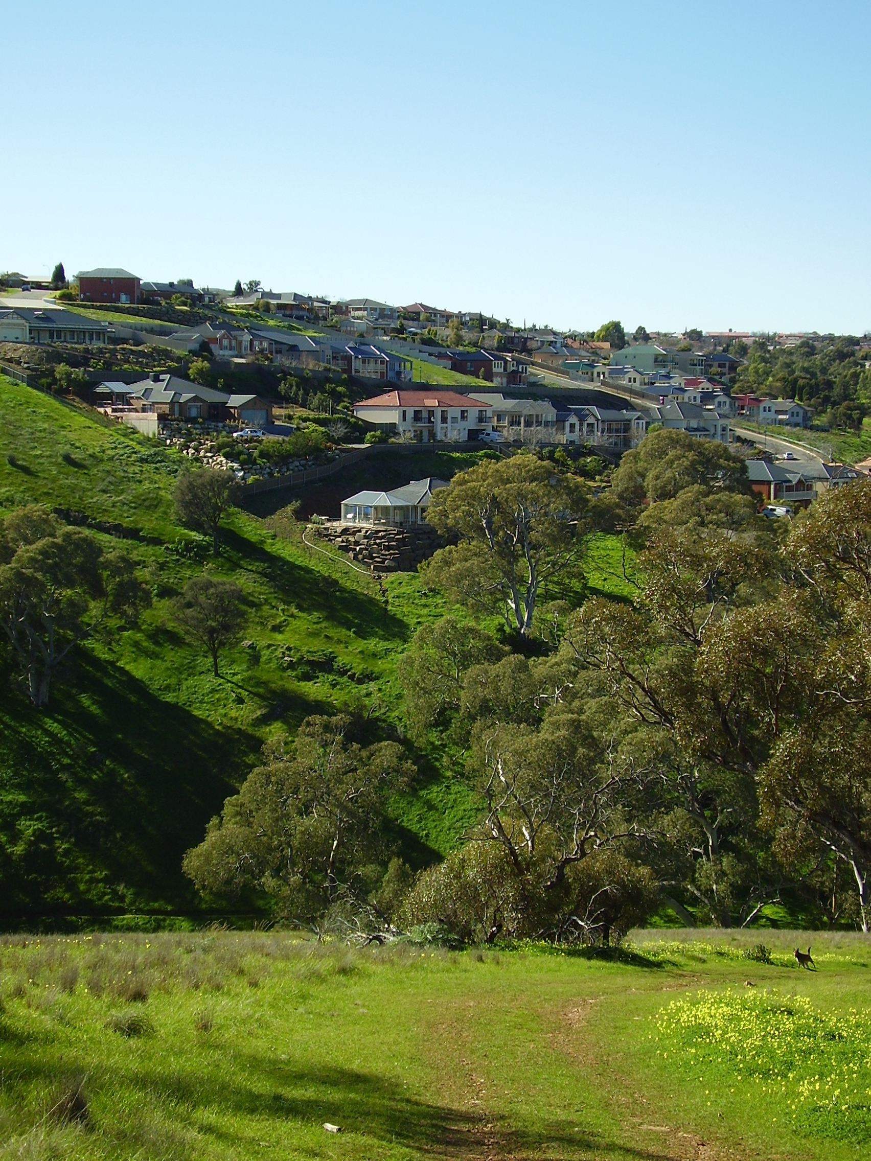 Suburb of Greenwith in the north east of Adelaide, South Australia. View from a hill in adjacent cobbler creek reserve.